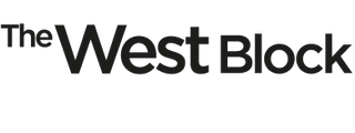 Logo of the Global television program "The West Block"